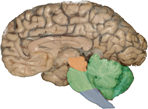 Human brainstem. Sagittal view. The brainstem is divided rostrocaudally into midbrain (orange), metencephalon (green), and medulla oblongata (blue).